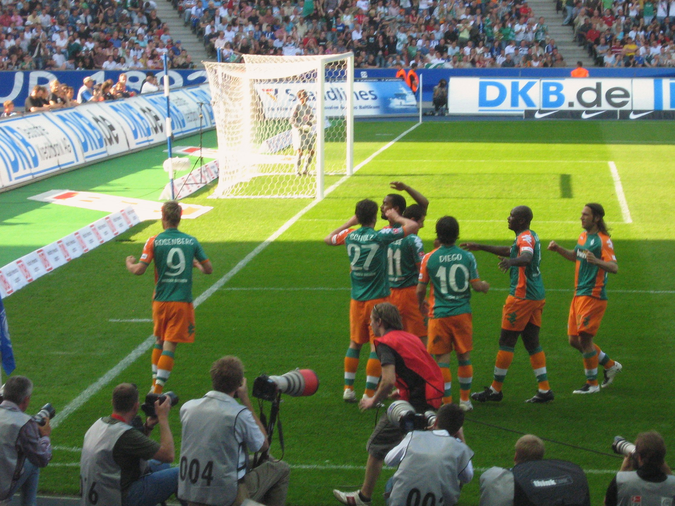 Markus Rosenberg (9), Christian Schulz (27), Patrick Owomoyela, Miroslav Klose (11), Diego Ribas da Cunha (10), Pierre Wome, Torsten Frings in Berlin against Hertha BSC, 2007. Goalkeeper in the background: Hertha's Christian Fiedler